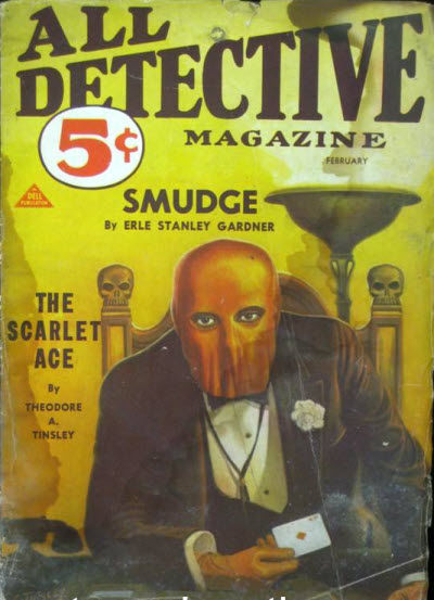 All-Detective, February 1933